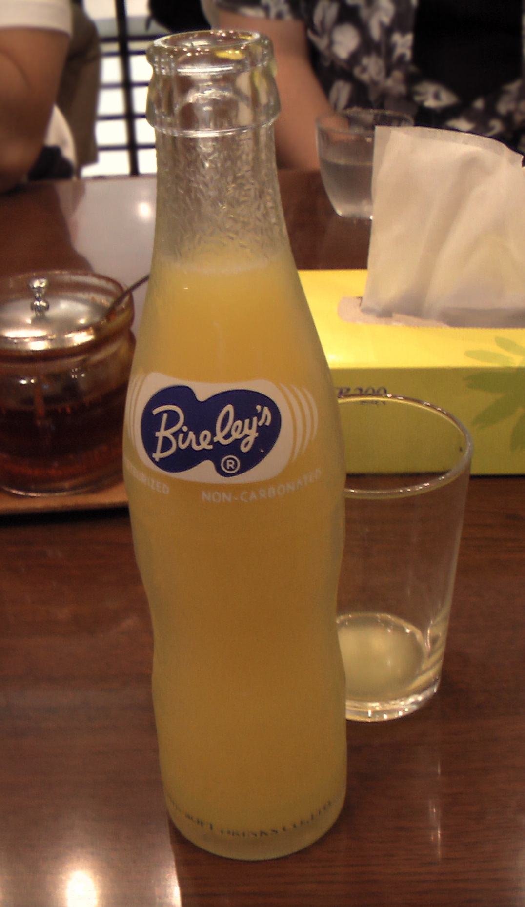 バヤリース (Bireley's®) (アサヒ飲料株式会社 / Asahi Soft Drinks Co.,Ltd.)